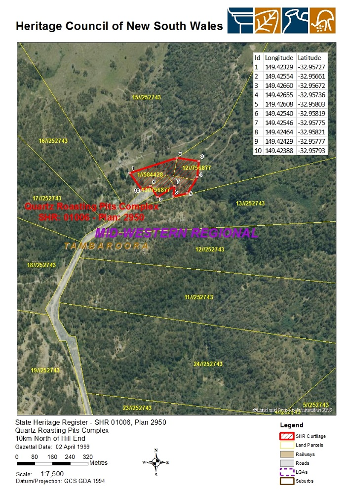 Quartz Roasting Pits Complex: SHR Plan No 2950